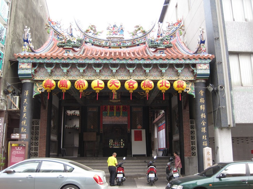 A historical temple in Tainan, Taiwan.